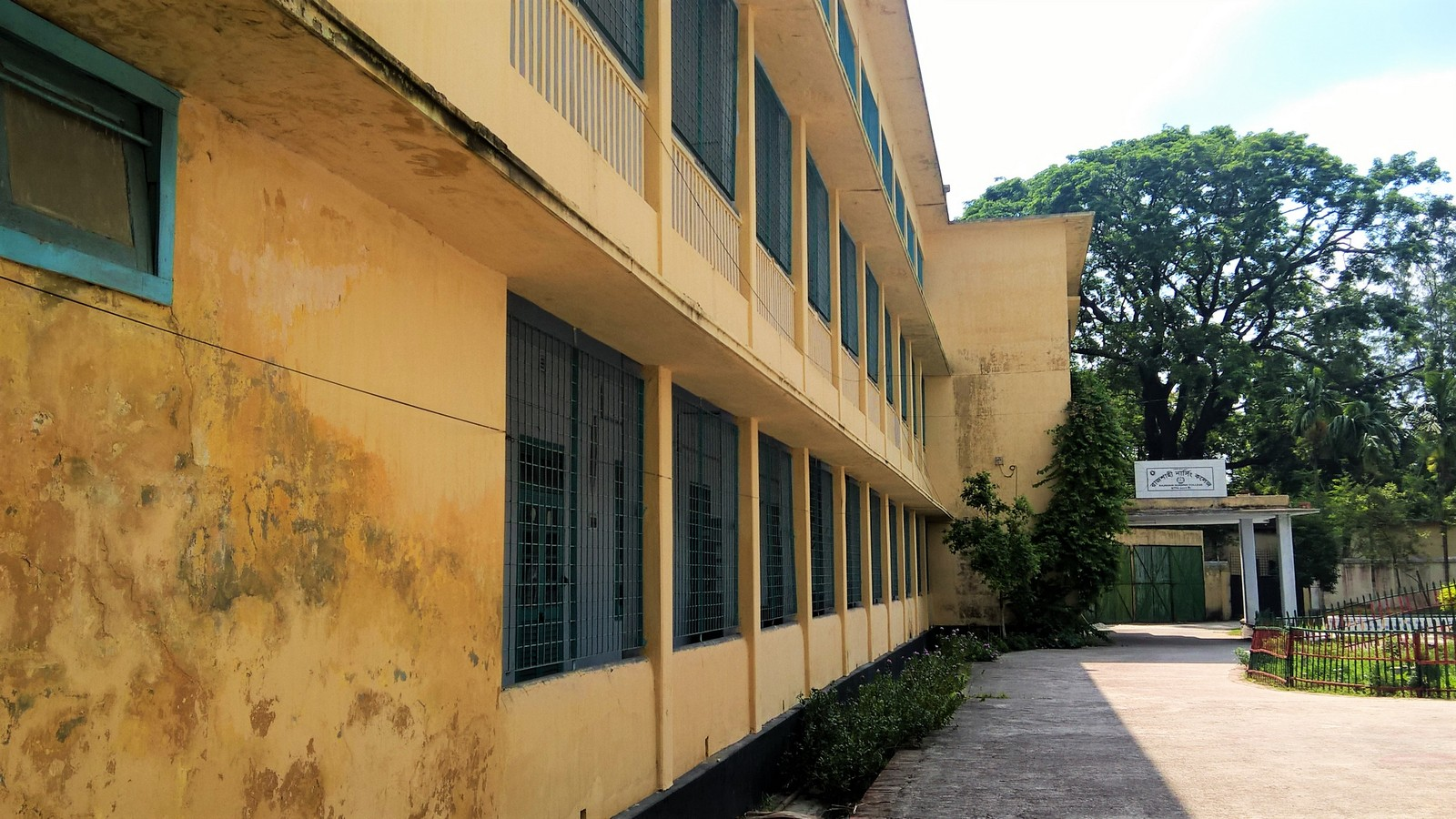 Rajshahi Nursing College is one of the Government Nursing College affiliated by Rajshahi University.